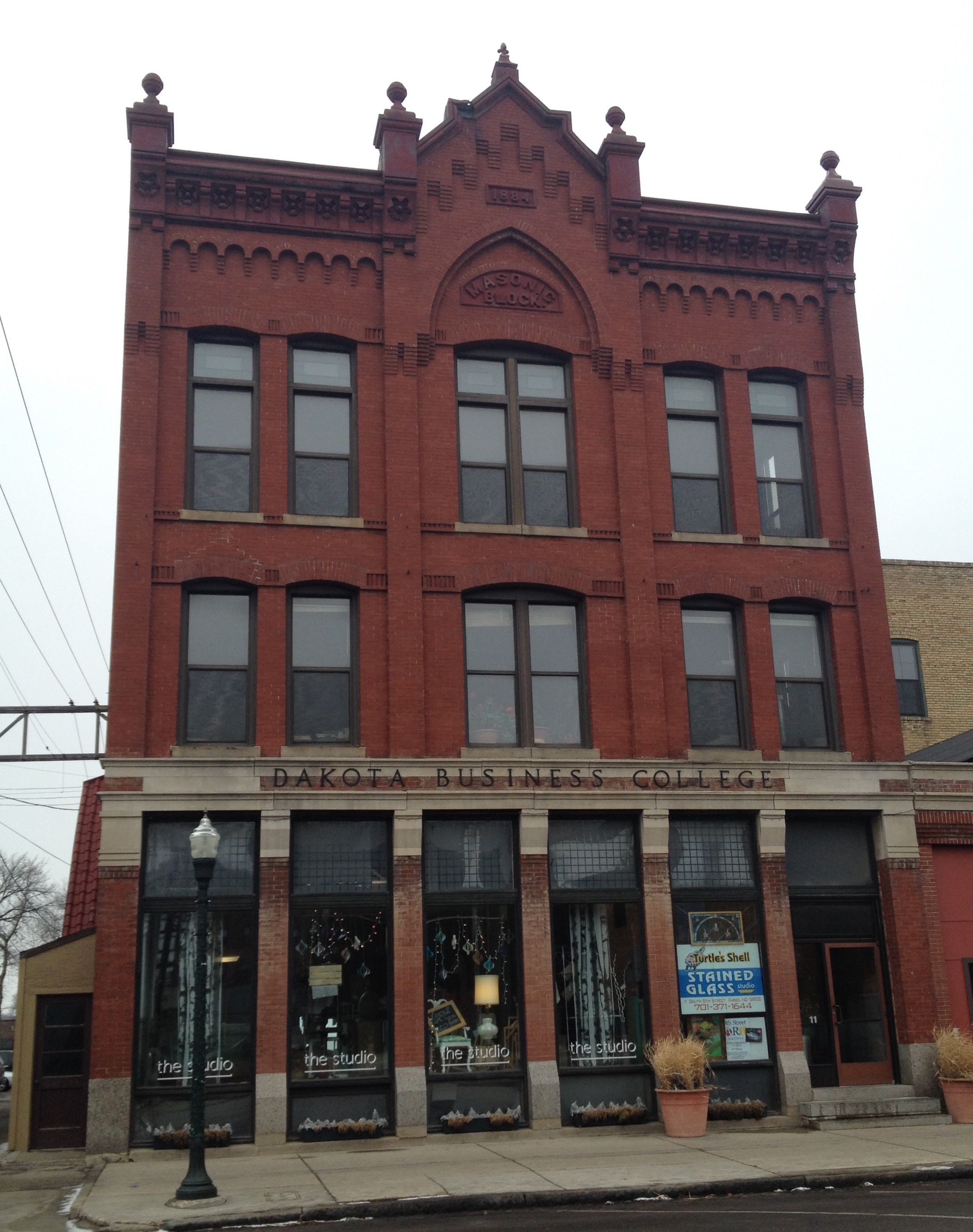 The Masonic Building in downtown Fargo, ND.